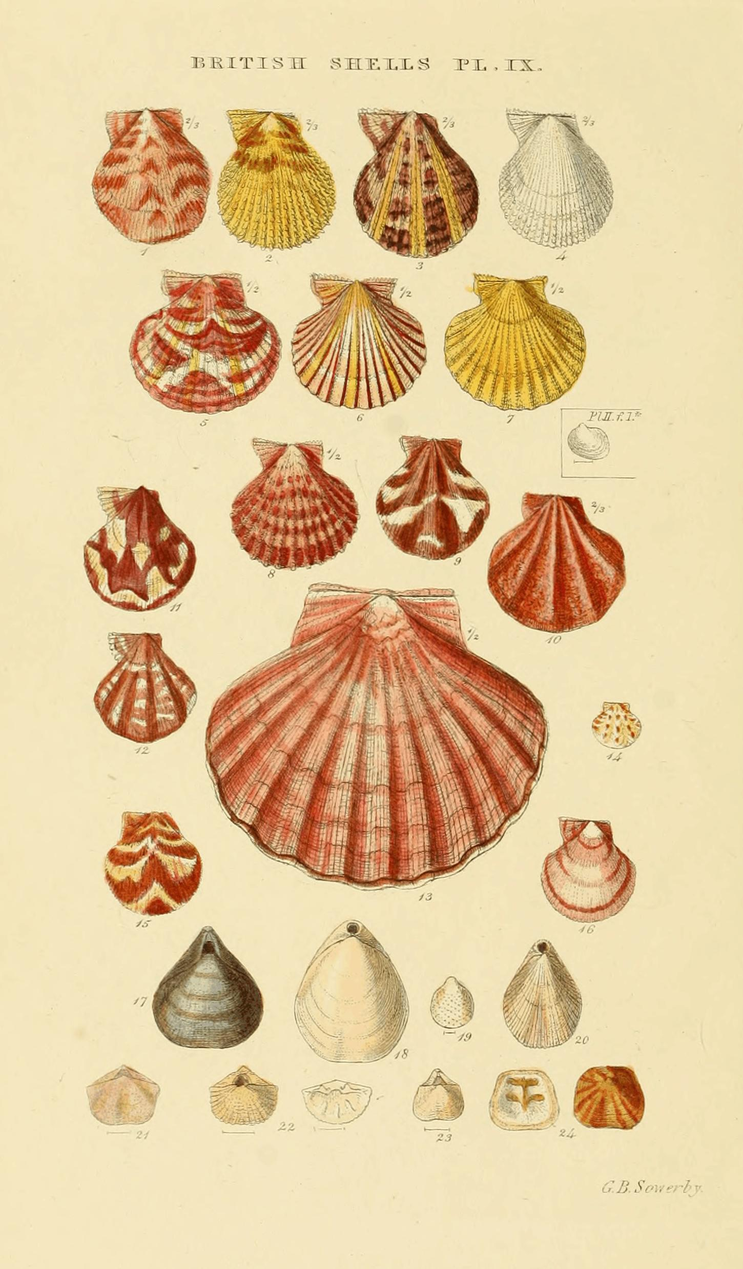 Illustrated Index of British Shells. Plate IX. 1Pecten pusioTalochlamys pusio2, 3Pecten variusMimachlamys varia4Pecten niveusMimachlamys varia nivea5, 6, 7Pecten opercularisAequipecten opercularis8Pecten AudouiniiAequipecten opercularis9, 10Pecten danicusPseudamussium peslutrae11, 12Pecten tigrinusPalliolum tigerinum13Pecten maximusPecten maximus14Pecten similisSimilipecten similis15Pecten striatusPalliolum striatum16Pecten furtivusPalliolum incomparabile17Hippothyris psittaceaHemithiris psittacea18Terebratula craniumMacandrevia cranium19Terebratula capsulaGwynia capsula20Argiope caput-serpentisTerebratulina retusa21Argiope cistellulaArgyrotheca cistellula22Argiope decollata(not matched)23Argiope seminulum(not matched)24Crania anomalaNovocrania anomala Nos 17—24 are Brachiopods, the others are Molluscs